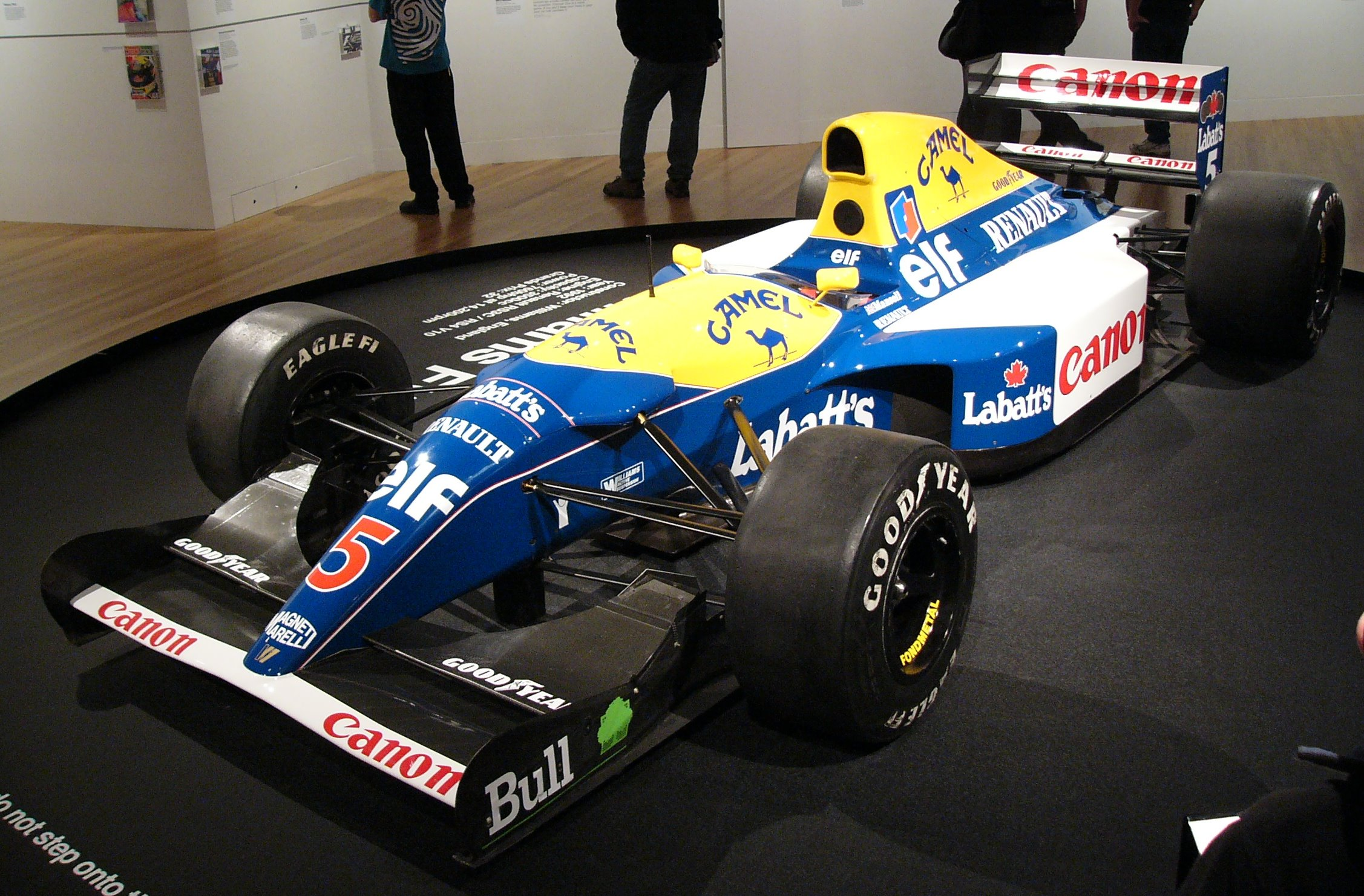 Photos taken at TePapa, Museum of New Zealand, Wellington